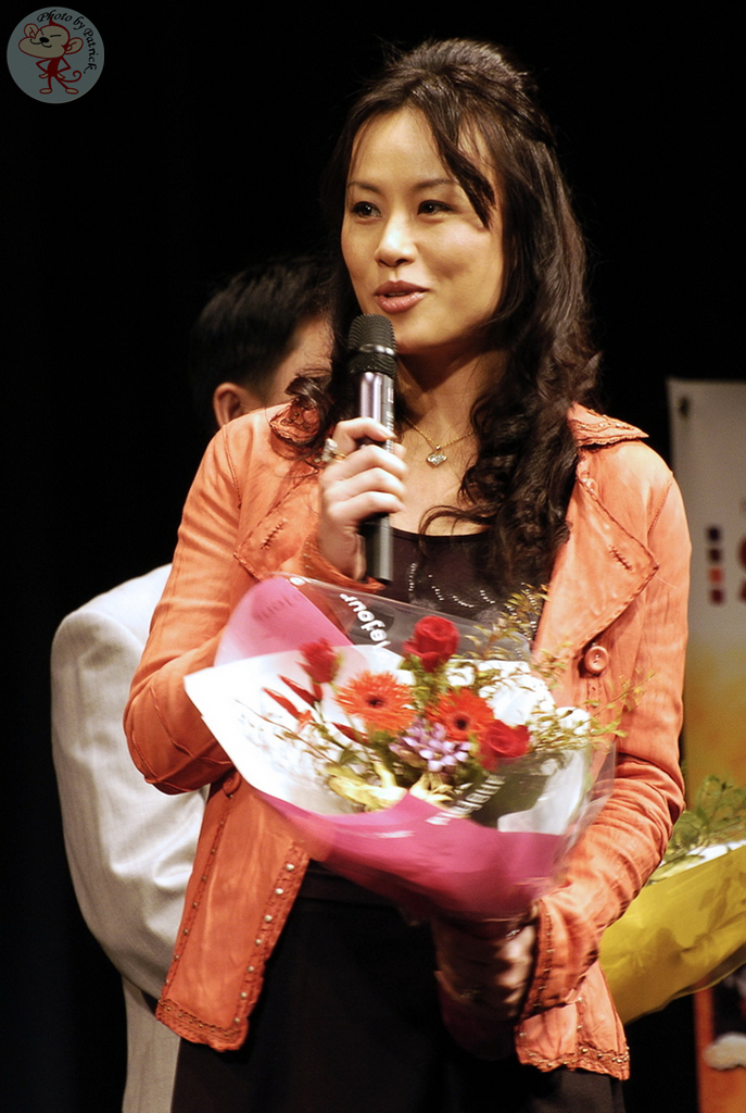 Vivian Wu at 20th Tokyo International Film Festival